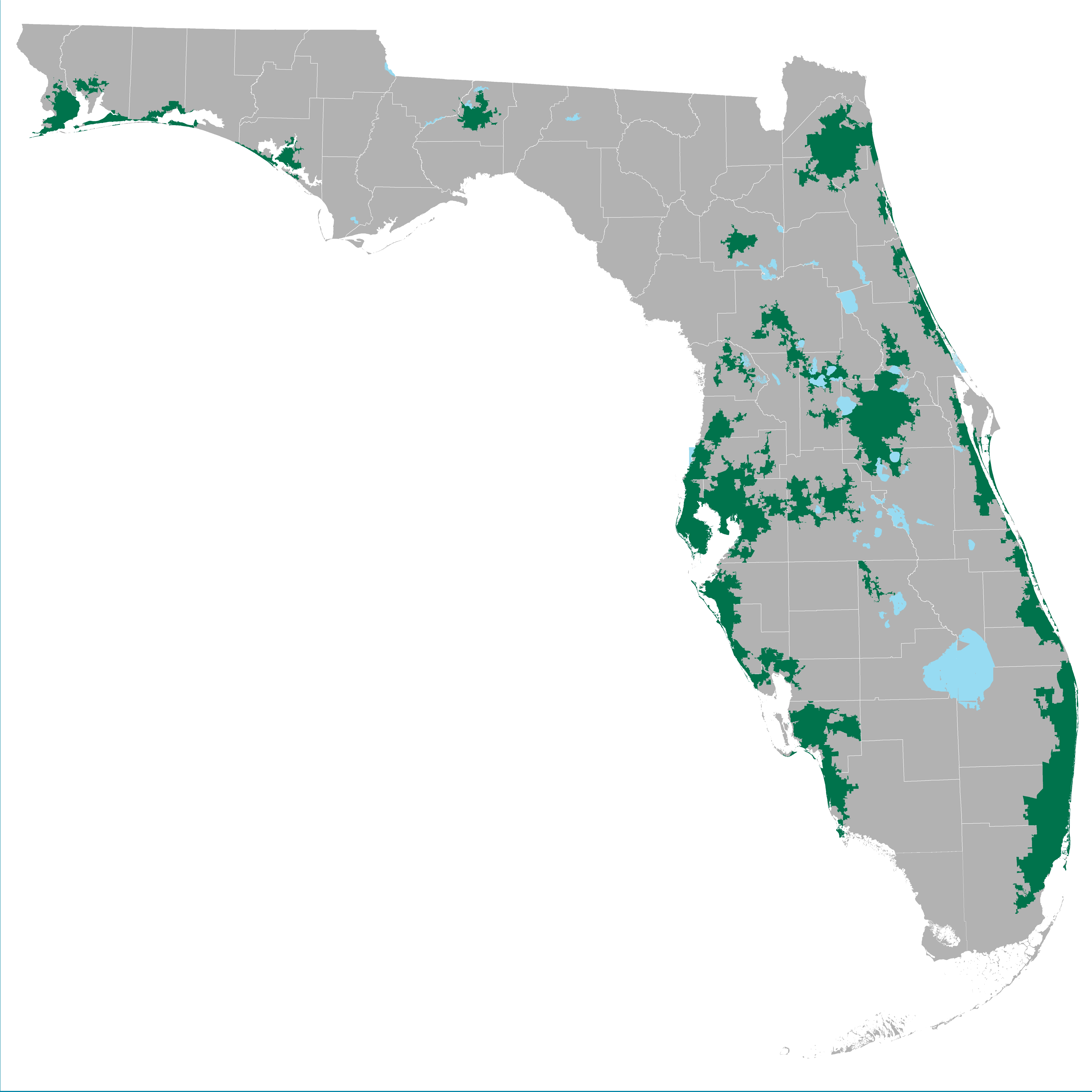 This map shows all urbanized areas of Florida (in turquoise), as derived from official 2010 US Census Data.